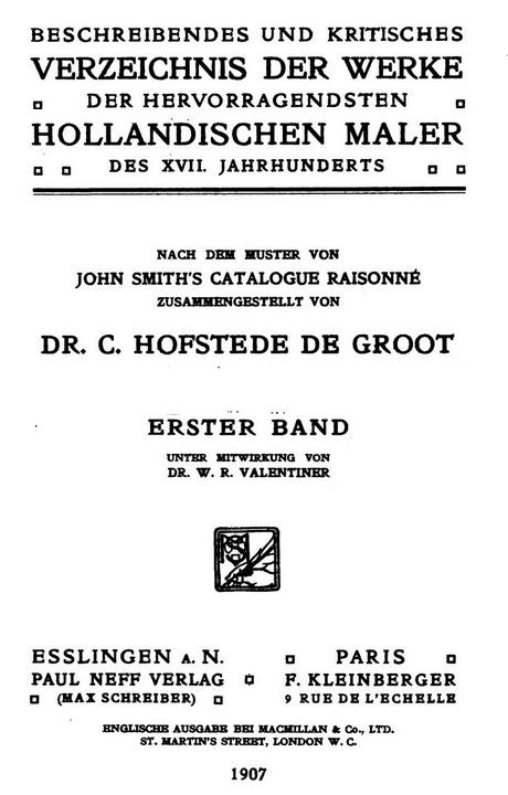 Original, German-language version of A catalogue raisonné of the works of the most eminent Dutch painters of the seventeenth century based on the work of John Smith. (Later translated in English and edited by Edward G. Hawke in 1910) by Hofstede de Groot, Cornelis, 1863-1930; Smith, John, dealer in pictures, London; Hawke, Edward G. (Edward George), 1869